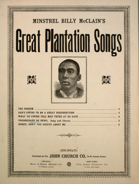 Sheet music cover for Billy McClain's Great Plantation Songs